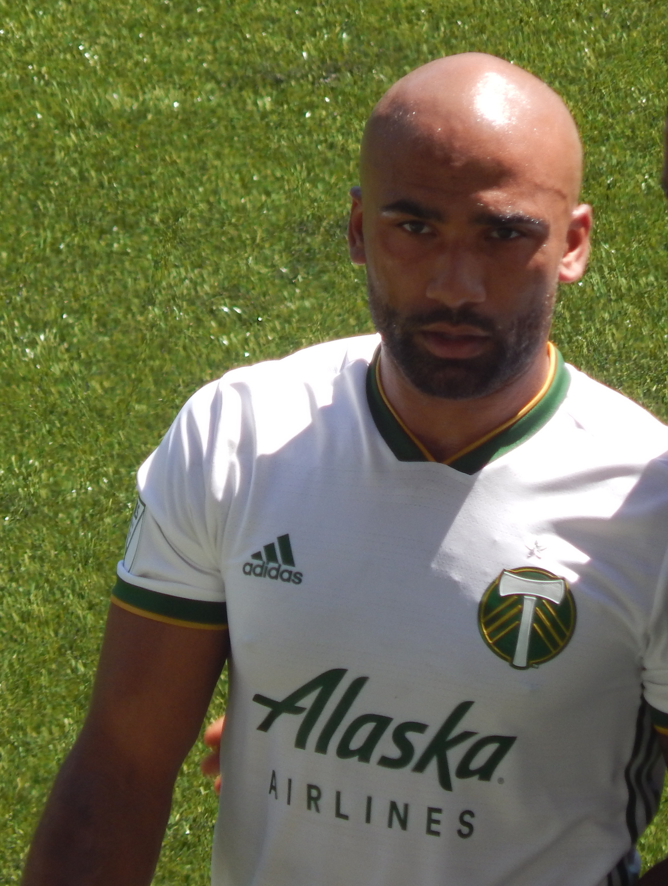 Samuel Armenteros #99 of Portland Timbers against the Los Angeles Galaxy at Providence Park on June 2, 2018 in Portland, Oregon.